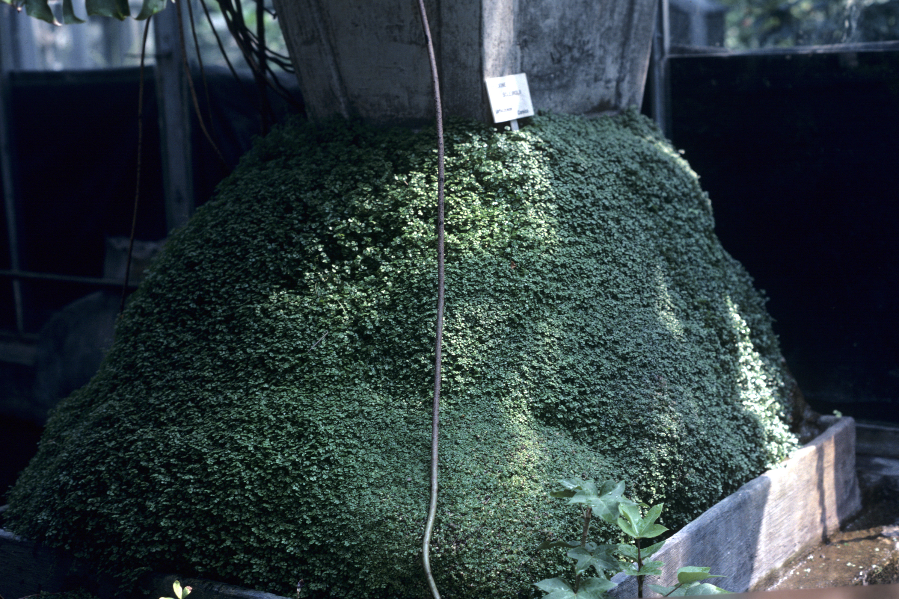 Soleirolia soleirolii also known as Helxine soleirolii